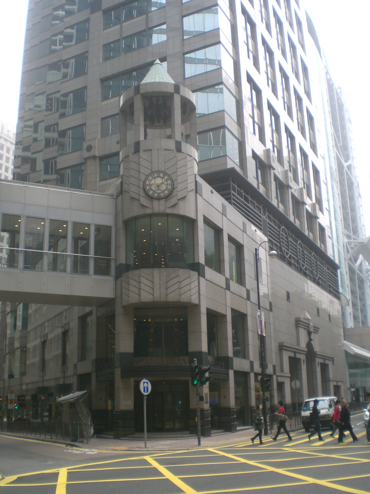 中環 (霧都下的) 皇后大道中九號 鐘樓